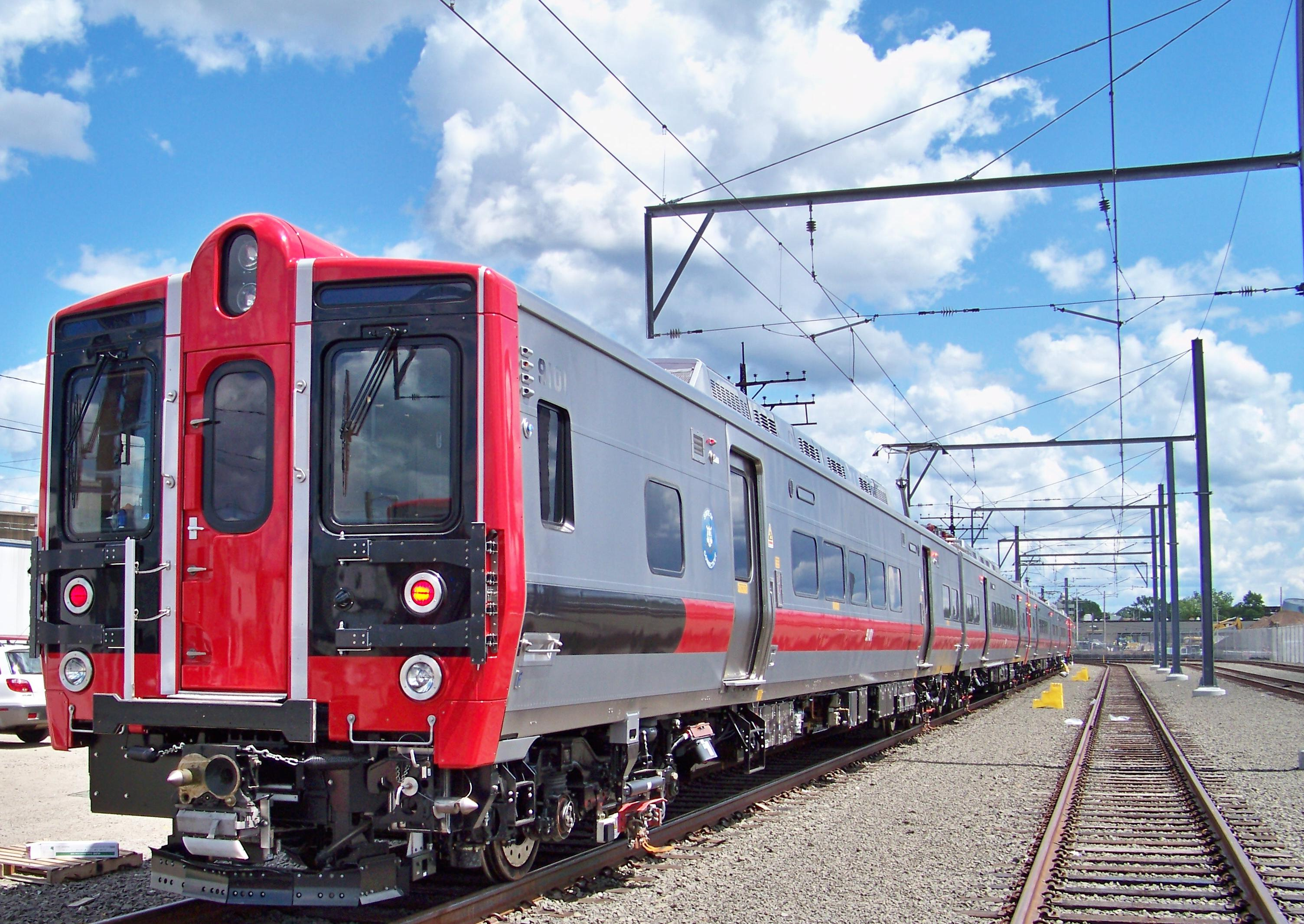 M8 car #9101 on one of the newly constructed tracks in New Haven Yard in September 2016